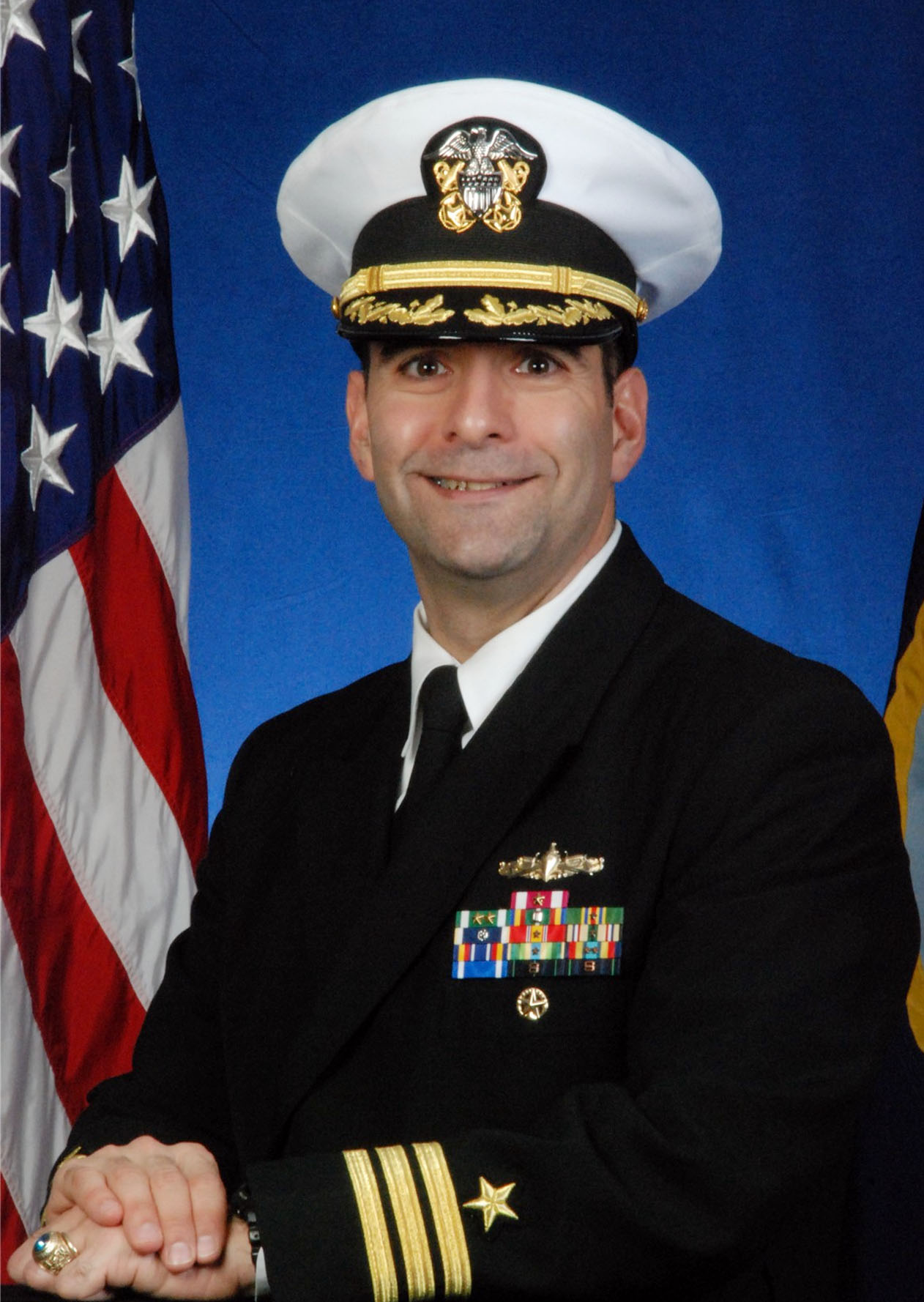 090413-N-0000X-001 WASHINGTON (April 13, 2009) An undated file photo of Cmdr. Frank X. Castellano, commanding officer of the guided-missile destroyer USS Bainbridge (DDG 96). (U.S. Navy Photo/Released)